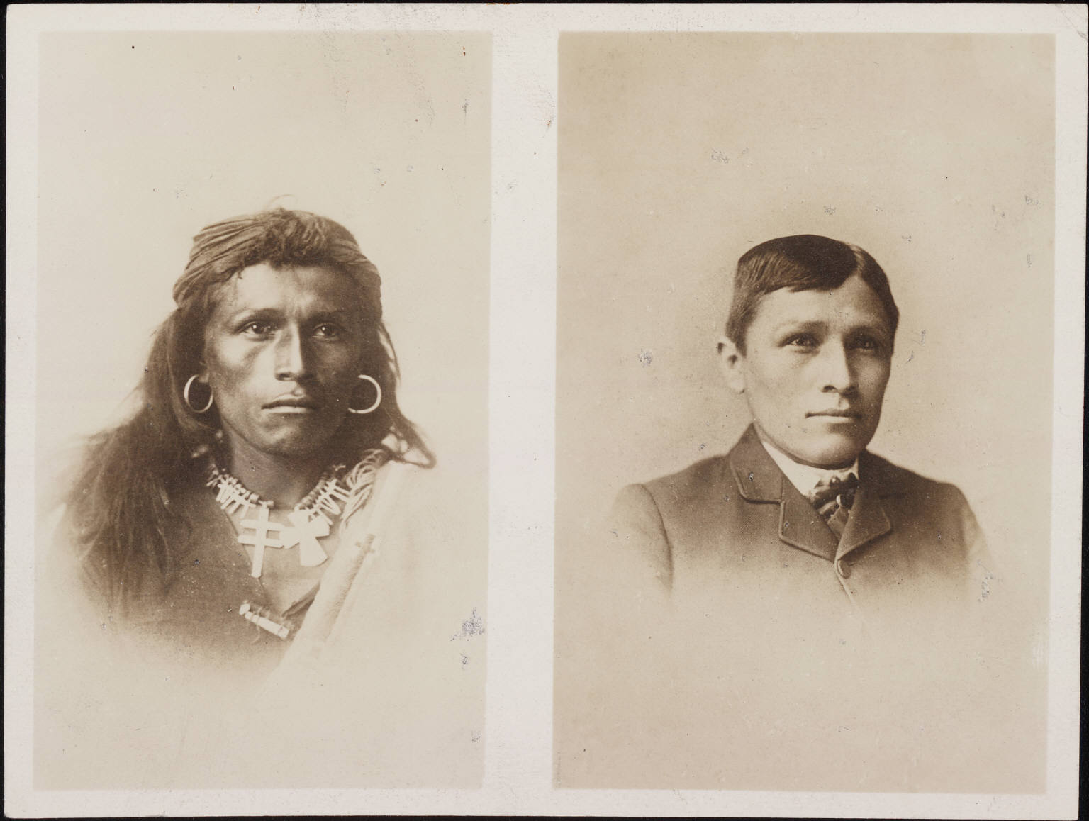 "Tom Torlino, Navajo, before and after." Black and white photographic portrait of a Navajo by J. N. Choate. Image courtesy of the Richard Henry Pratt Papers, Beinecke Rare Book & Manuscript Library.[1]